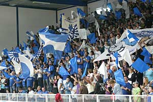 Gunnersfans